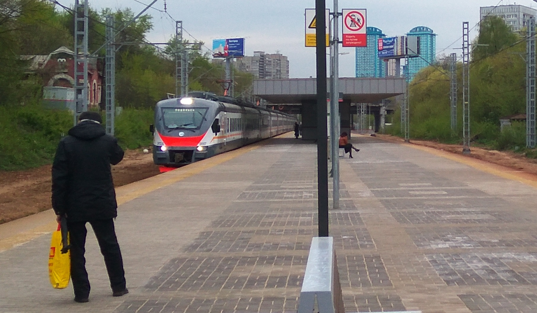 Rizhsky suburban direction of Moscow Railway, Pokrovsko-Streshnevo station